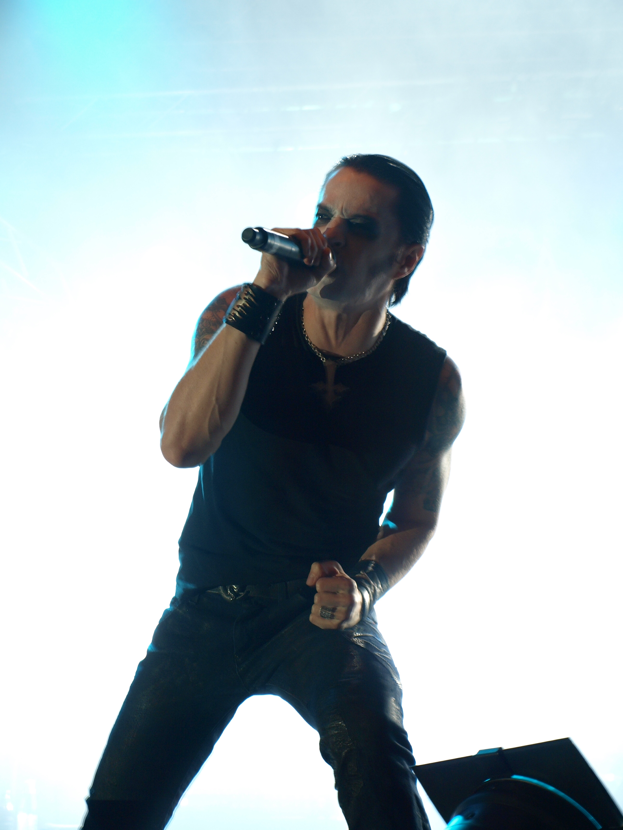 Norwegian black metal band Satyricon live at Jalometalli 2008 in Oulu.